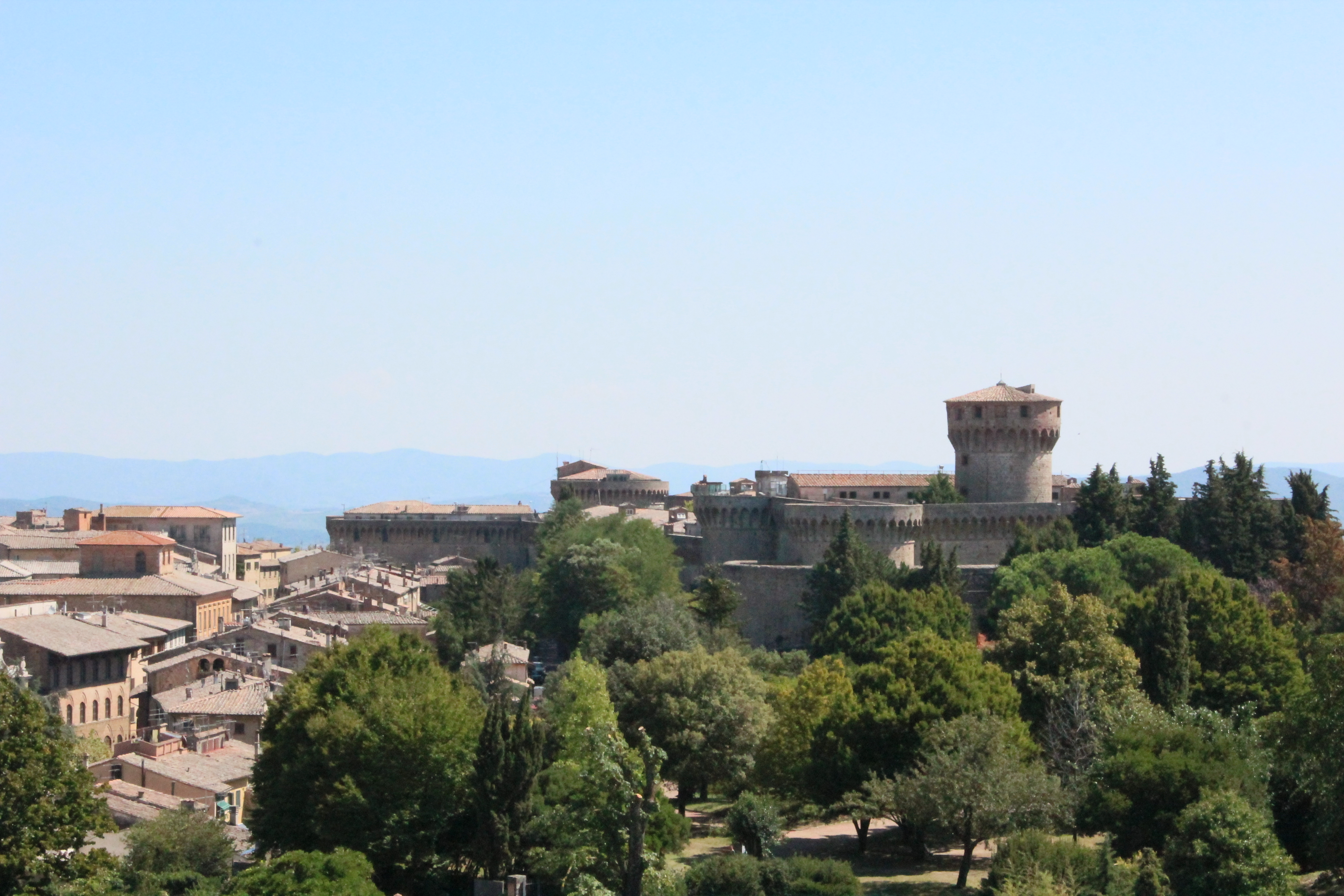 Fortezza Medicea, Volterra, Province of Pisa, Tuscany, Italy